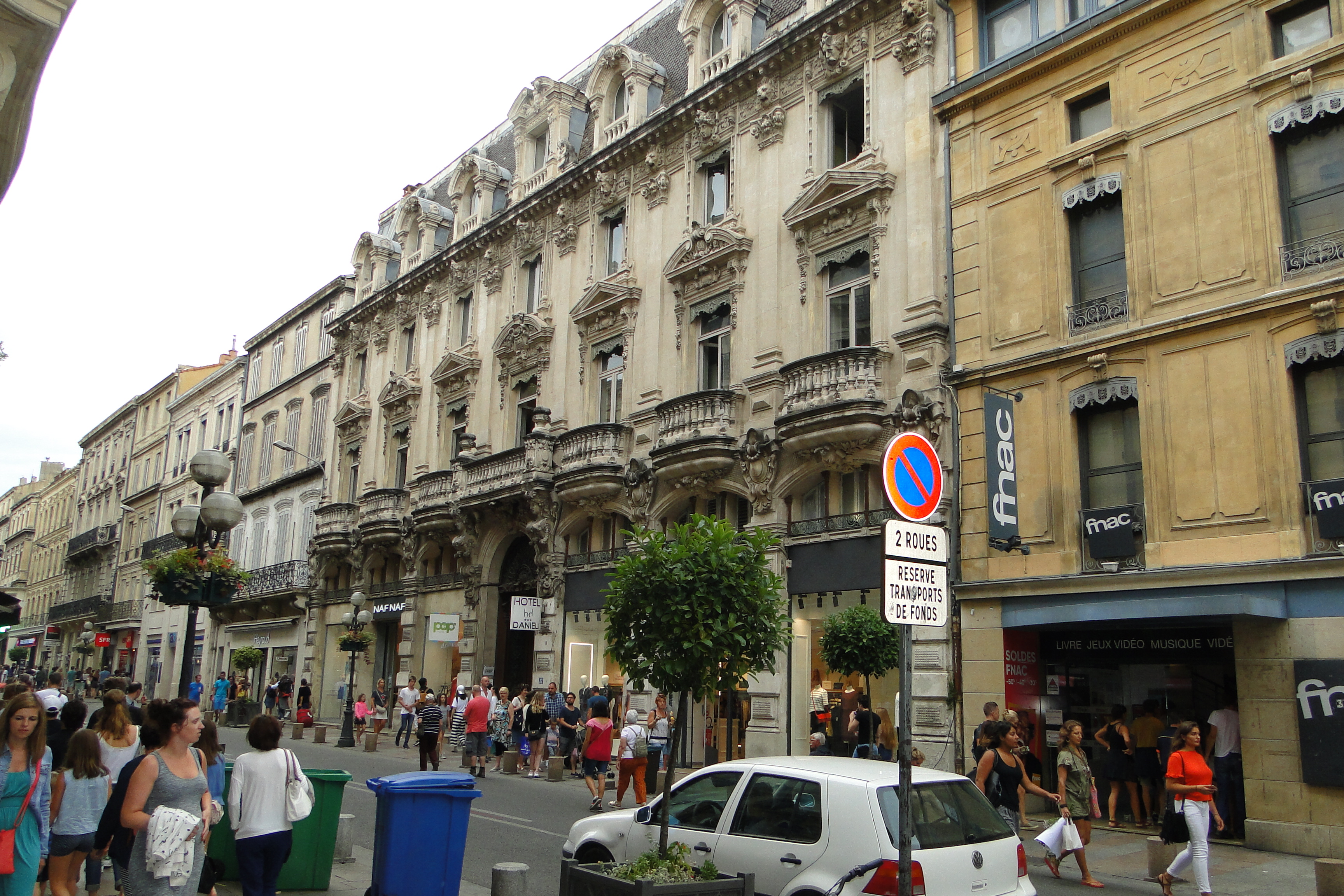 Avignon - Republic street